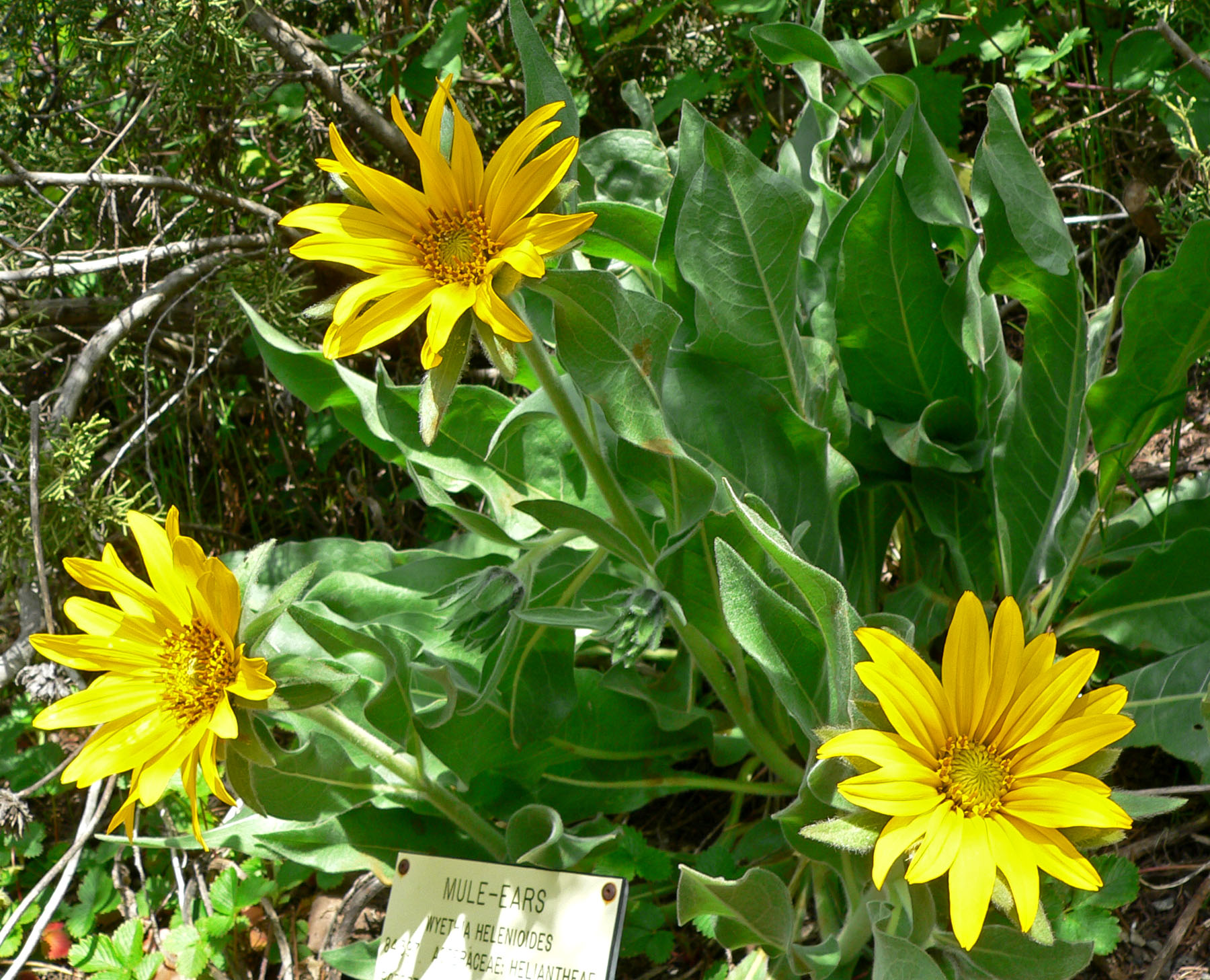 Photo of Wyethia helenioides at the Regional Parks Botanic Garden, Berkeley, California